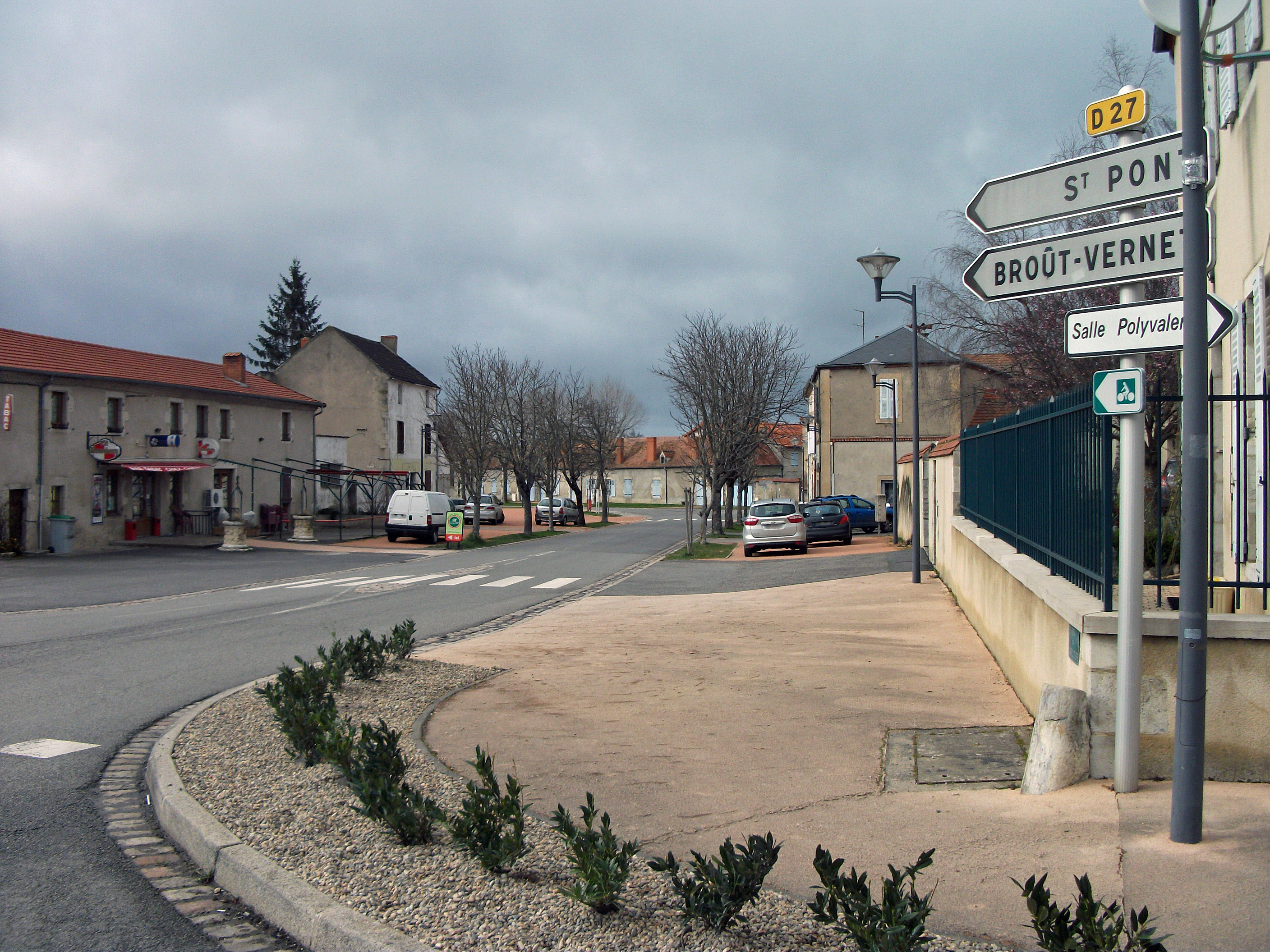 Departmental road 27 towards Saint-Pont and Broût-Vernet in Escurolles [10195]